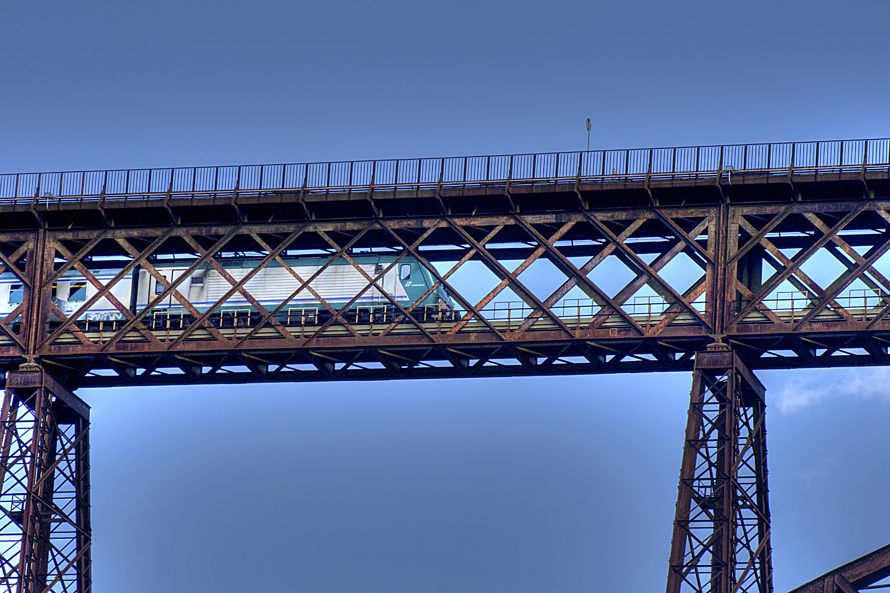 The bridge of San Michele is an arched bridge in iron, links the villages of Paderno and Calusco through the gorge of the river Adda. 266 meters long 85 meters high More information (in Italian) here